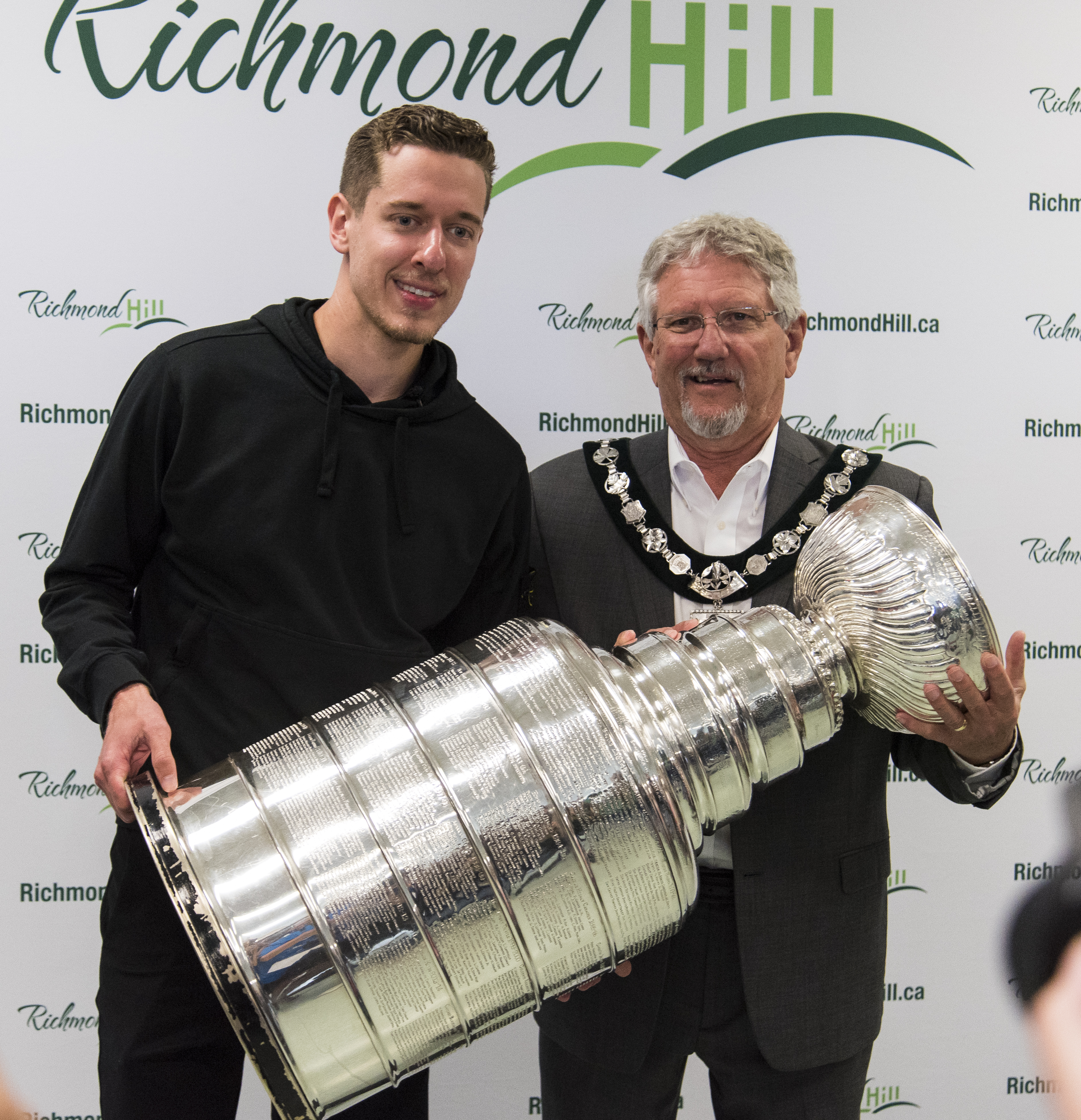 Jordan Binnington with the Stanley Cup